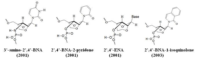 BNAH6